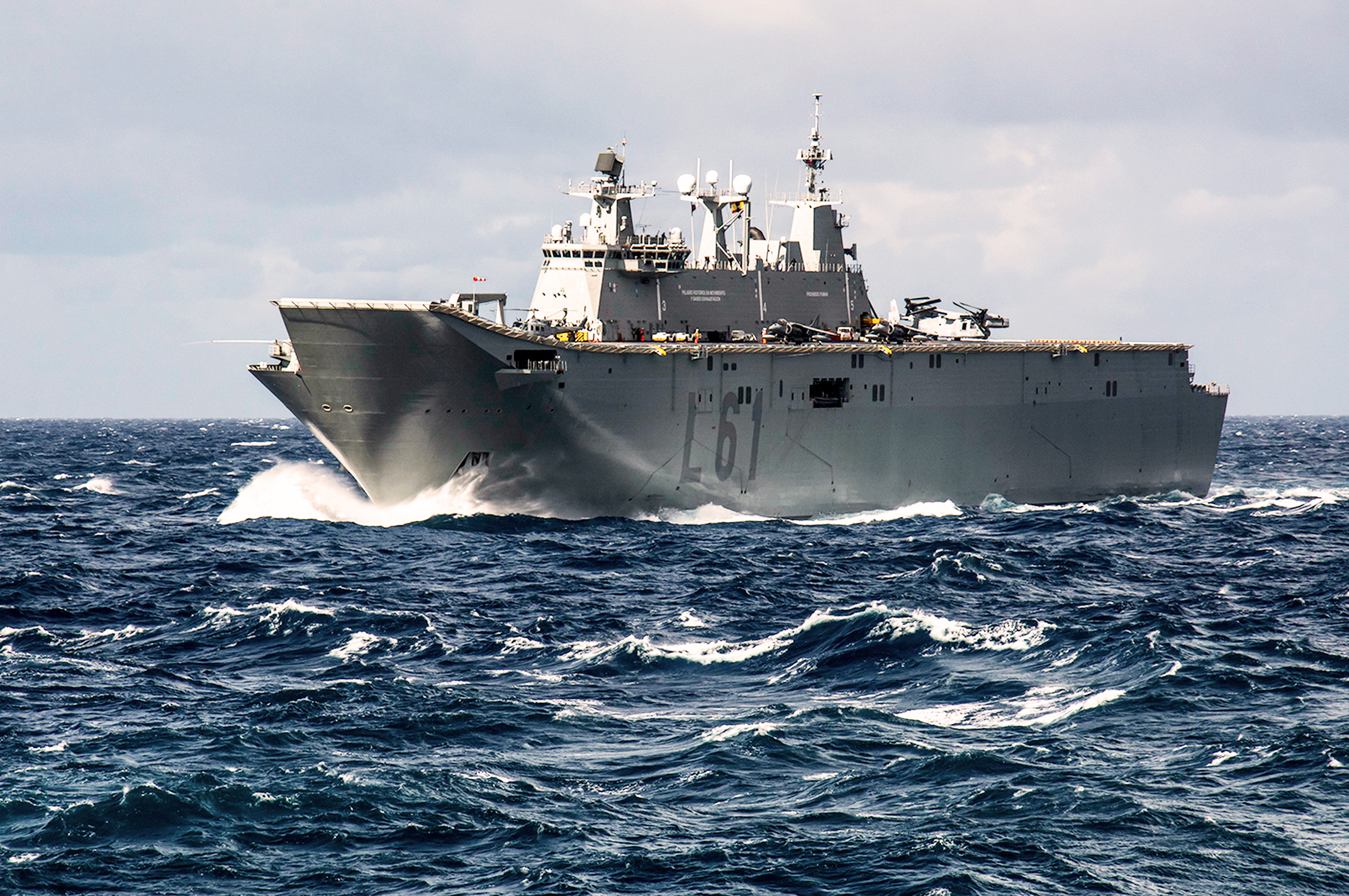 20151102_DEU_AB_11 GULF OF CADIZ/ATLANTIC OCEAN -- While participating in NATO-Exercise Trident Juncture 2015, thirteen ships from several different Task Groups gathered for a complicated manoeuvring exercise within just a few hundred feet of each other. Beside SNMG2 flagship German frigate HAMBURG and ships from Canada, Great Britain, Netherlands, Portugal, Spain and Turkey participated. Depicted is the ESPS JUAN CARLOS I (November 2, 2015). The units of Standing NATO Maritime Group 2 (SNMG2) are sailing in the Mediterranean Sea, inter alia, participating in multinational exercises and Operation ACTIVE ENDEAVOUR, showing presence of the Alliance and conducting routine port visits in NATO and Non-NATO countries. Credit: German Navy photo by Photographer PO1/OR-6 Alyssa Bier (released)